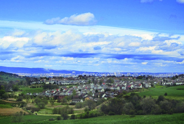 View over Neilston, Glasgow beyond. Editted to make image more "natural".